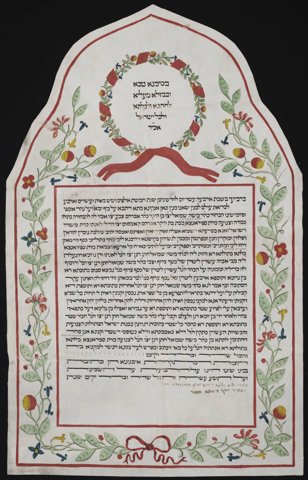 A traditional illustrated ketubah (Jewish marriage contract).